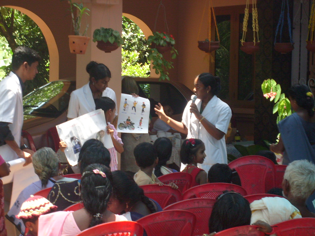 MediCamp-15